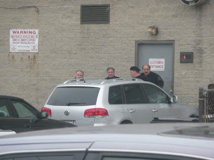 From left, Nicholas Cataudella, unidentified man, Michael Sarno and Nicholas' brother, Salvatore Cataudella. The FBI surveillance photo was introduced at the federal racketeering trial earlier this year of Michael Sarno.